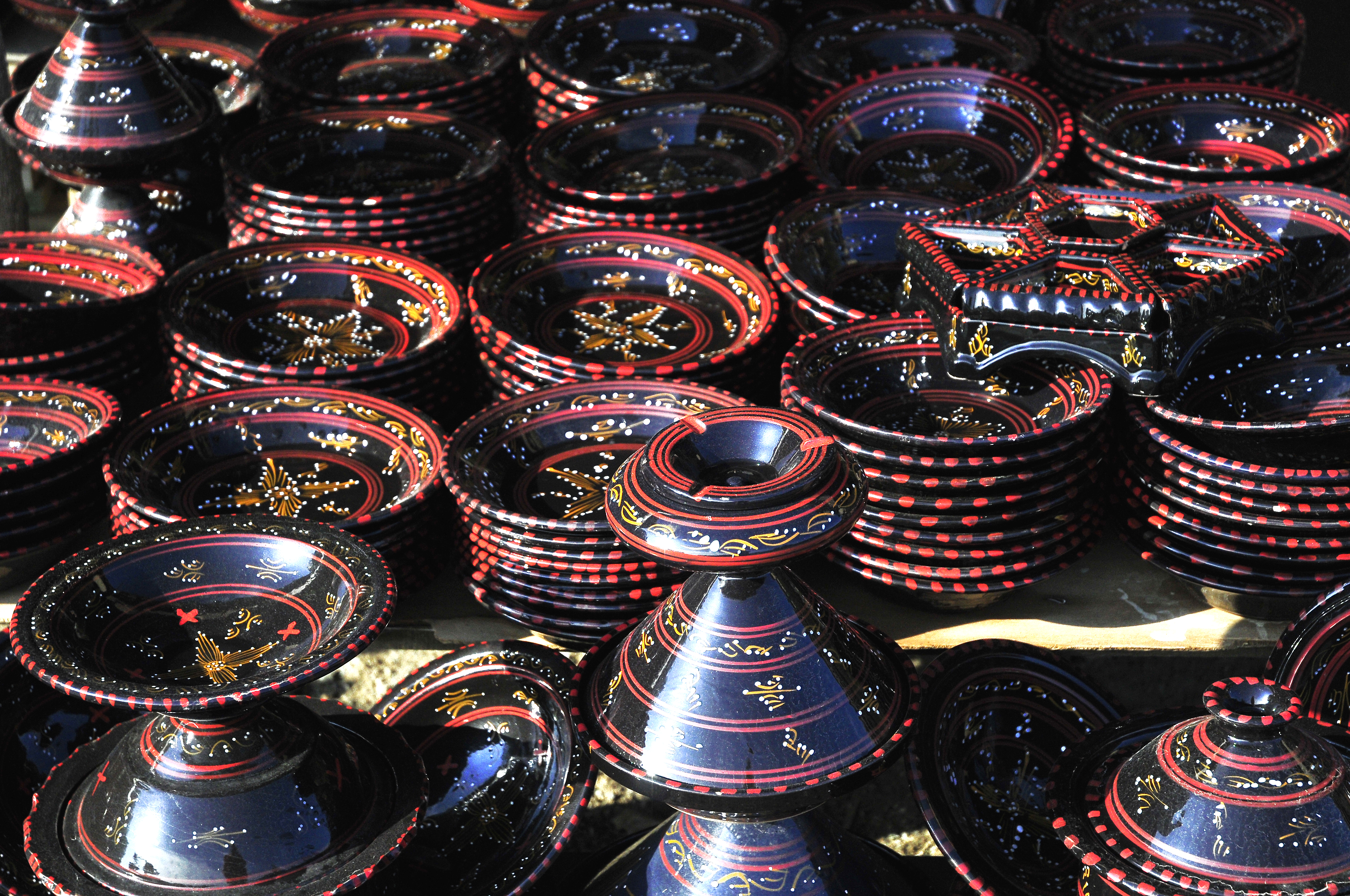 Folk earthenware for sale on the side of the highway, Yakouren, Tizi Ouzou, Kabylie, Algeria